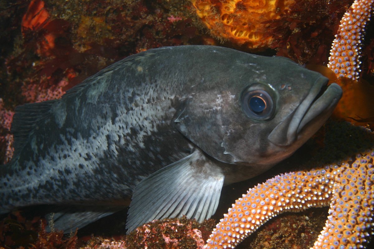 Black Rockfish (Sebastes melanops)